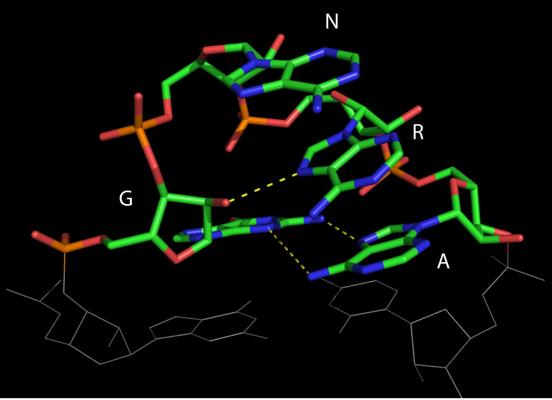 Structure of a GNRA tetraloop. Created with Pymol, from the 1GID PDB entry